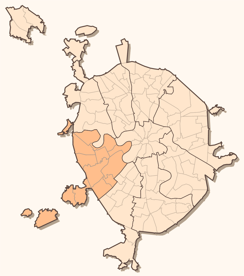 Moscow districts map